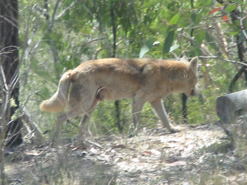 This Dingo wandered through looking for a meal. The tail shows it is a Dingo but it has been suggested that the colouring is incorrect and it is probably crossbred with a domestic dog. Could be Canis lupus dingo or maybe C. familiaris dingo due to the breeding